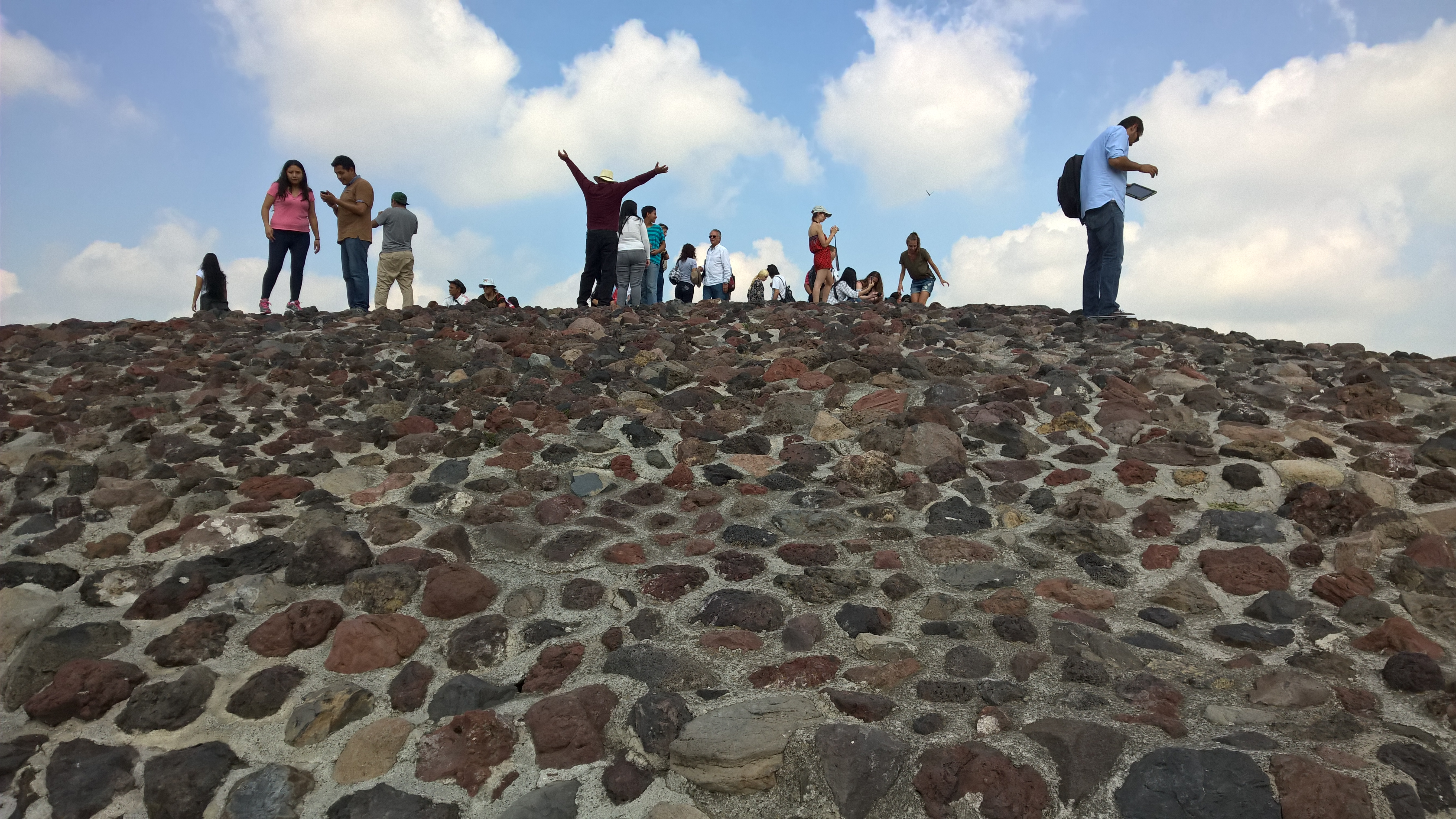 Top of Pyramid of the Sun